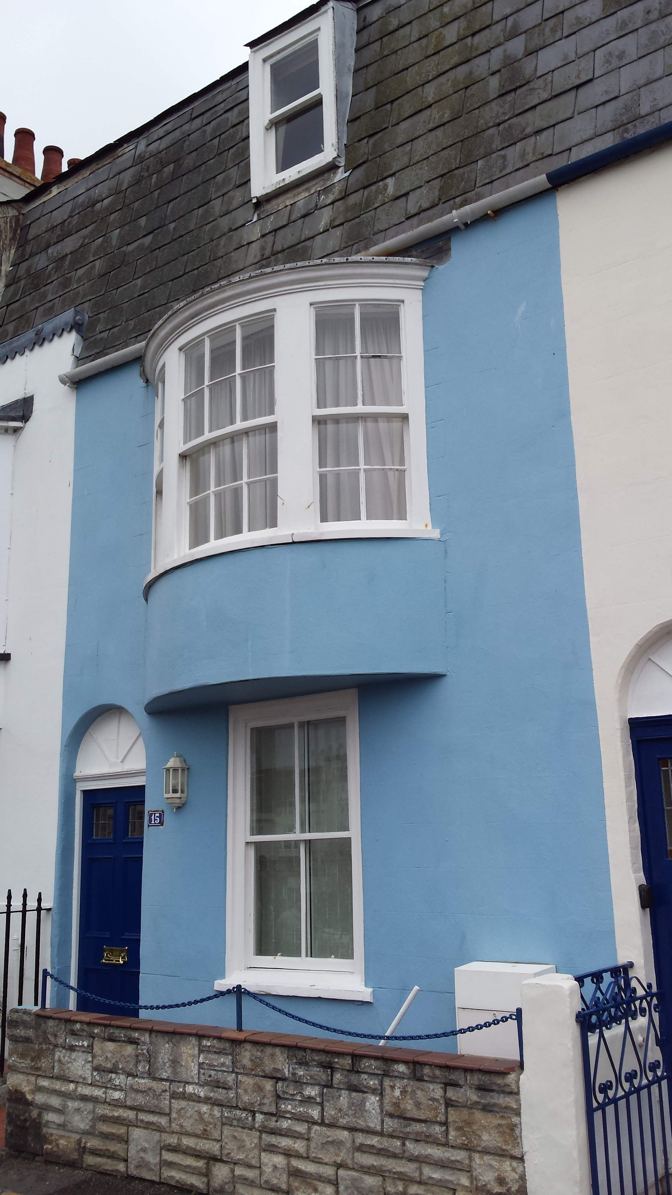 15 Nothe Parade, Weymouth Wikidata has entry Q26619112 with data related to this item.